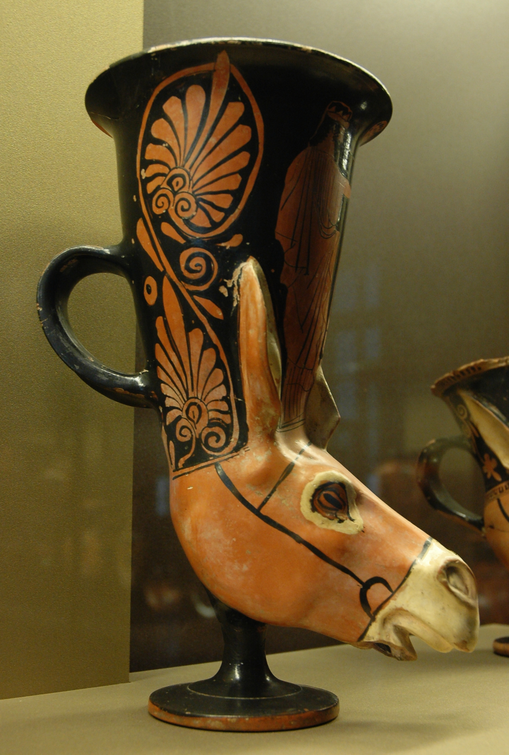 Plastic rhyton in the shape of a donkey's head representing Dionysos and a maenad. From Athens.